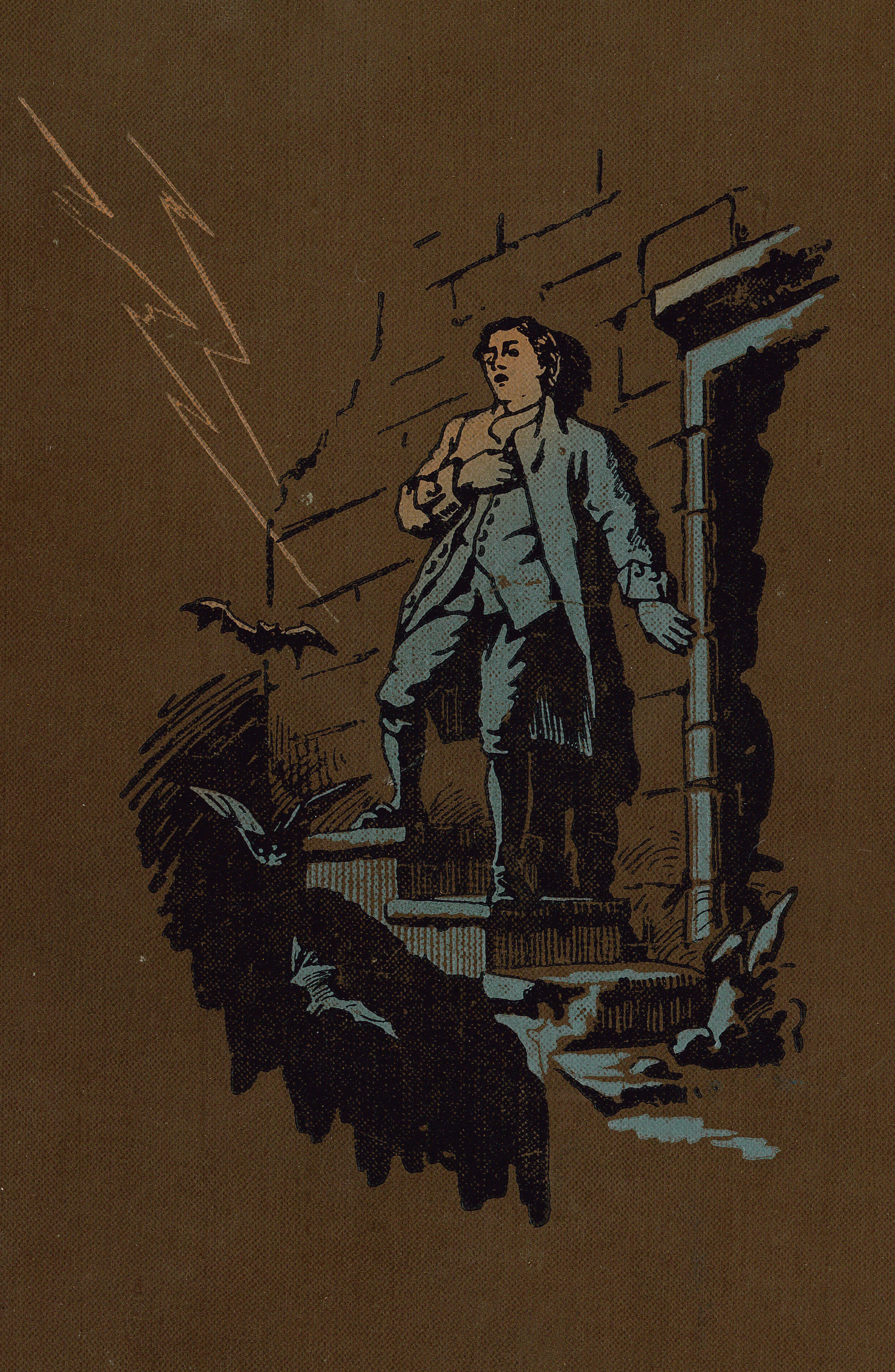 Cover